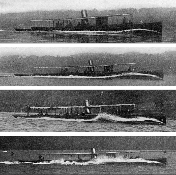 Steam yacht Ellide. It is seen accelerating from 16.6 knots at the top picture to 34.8 knots at the bottom picture.